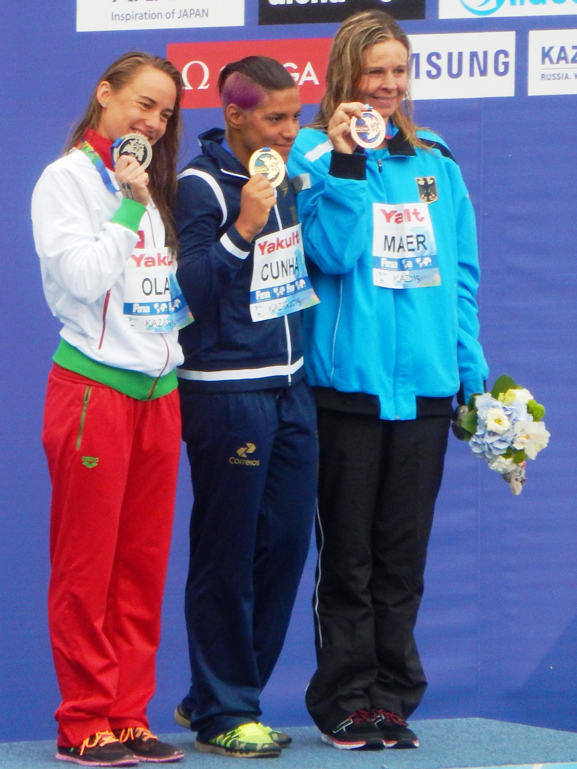 Victory Ceremony of women's 25km open water race at the 2015 World Champs in Kazan